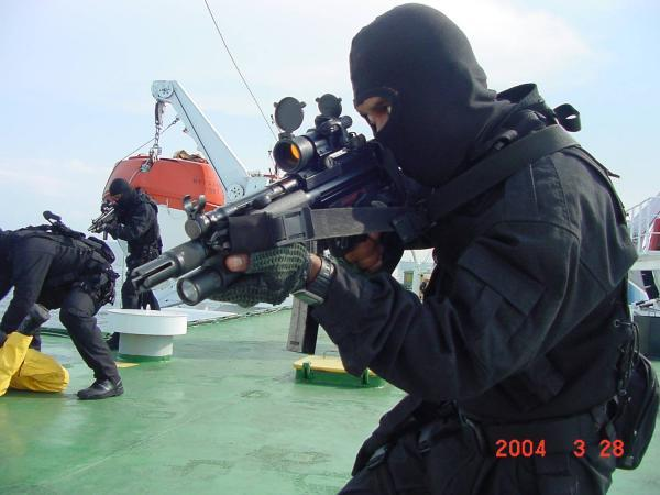 Navy Special Operations Force PASKAL operatives during the hostage rescue drill in MISC merchant vessel. (RELEASED)